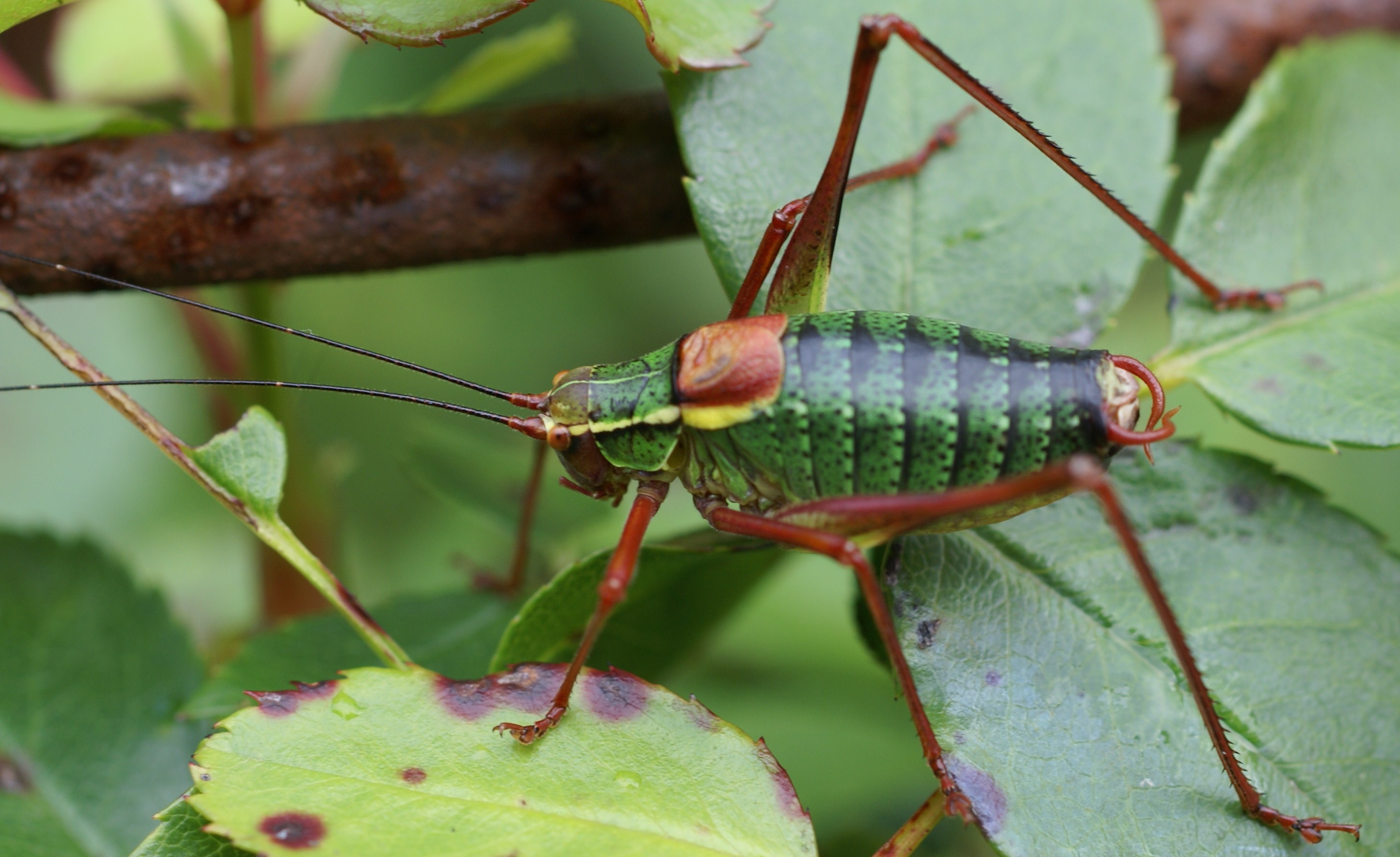 Barbitistes serricauda foto taken near Munich